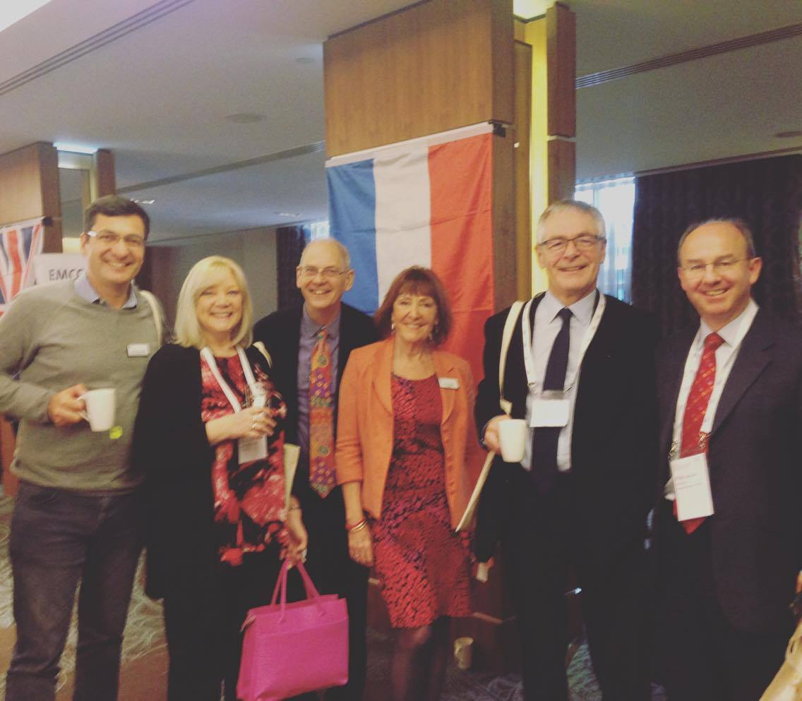 Lise Lewis, Current EMCC International President, David Sleightholm, EMCC International VP Quality, Nigel Cumberland, EMCC's Ethics Workgroup leader, David Clutterbuck, co-Founder of the EMCC, Philip Beddows, International Association of Coaching ("IAC") VP Research and Jeannette Marshall, Chairwoman of the UK arm of the Association for Coaching ("AC")